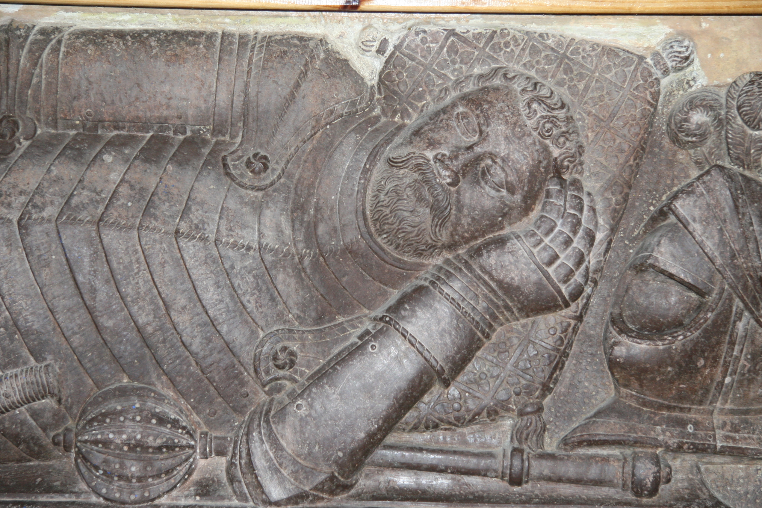 Bohdanas Oginskis (1568–1640) thombstone in the church of Kruonis, Lithuania